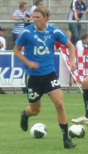 Christian Järdler in 2010